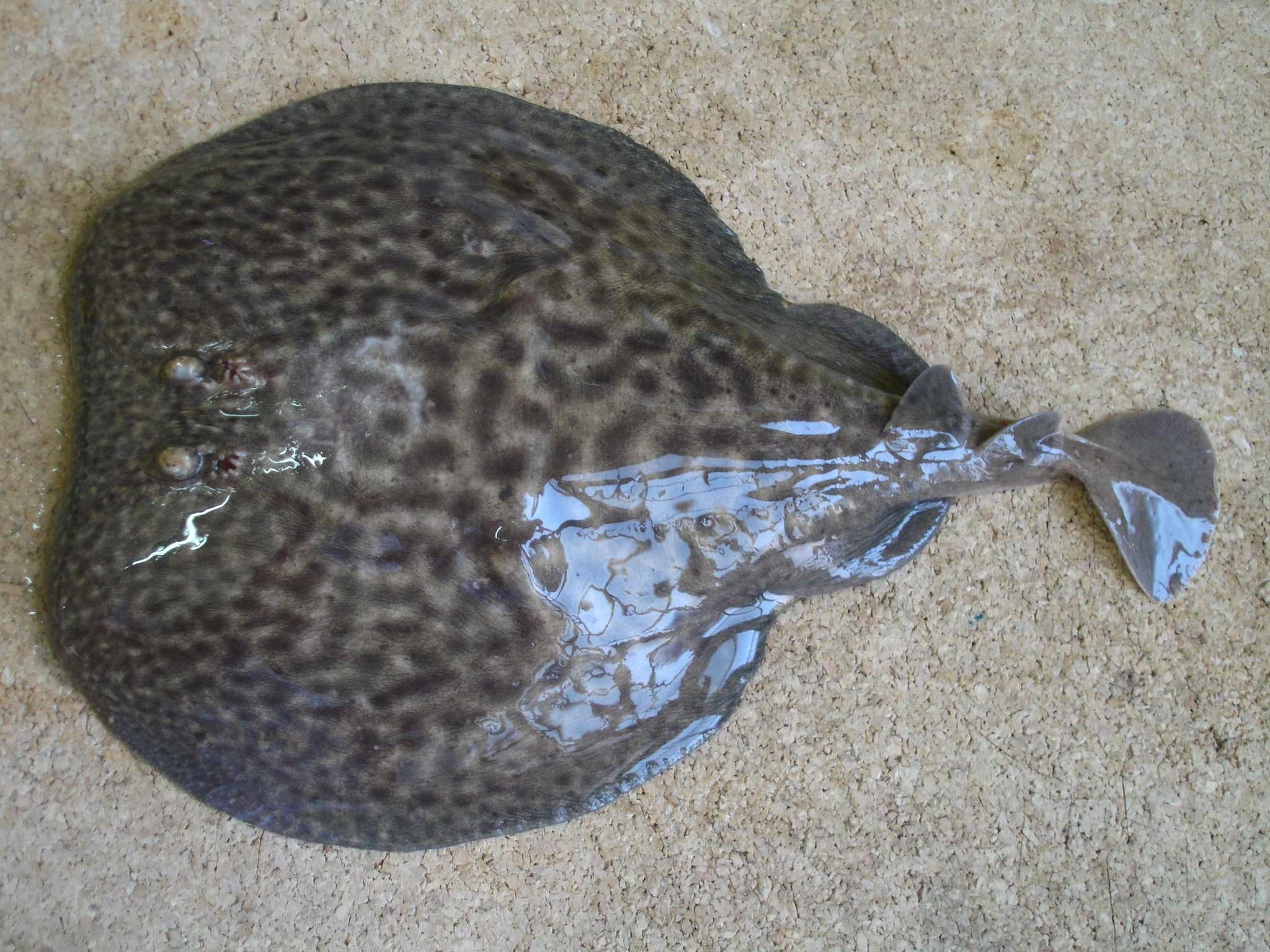 Marbled electric ray (Torpedo marmorata) off Faro, Portungal.